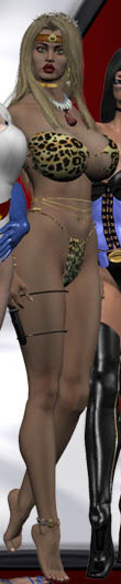 Jungle Babe from by Mr. X